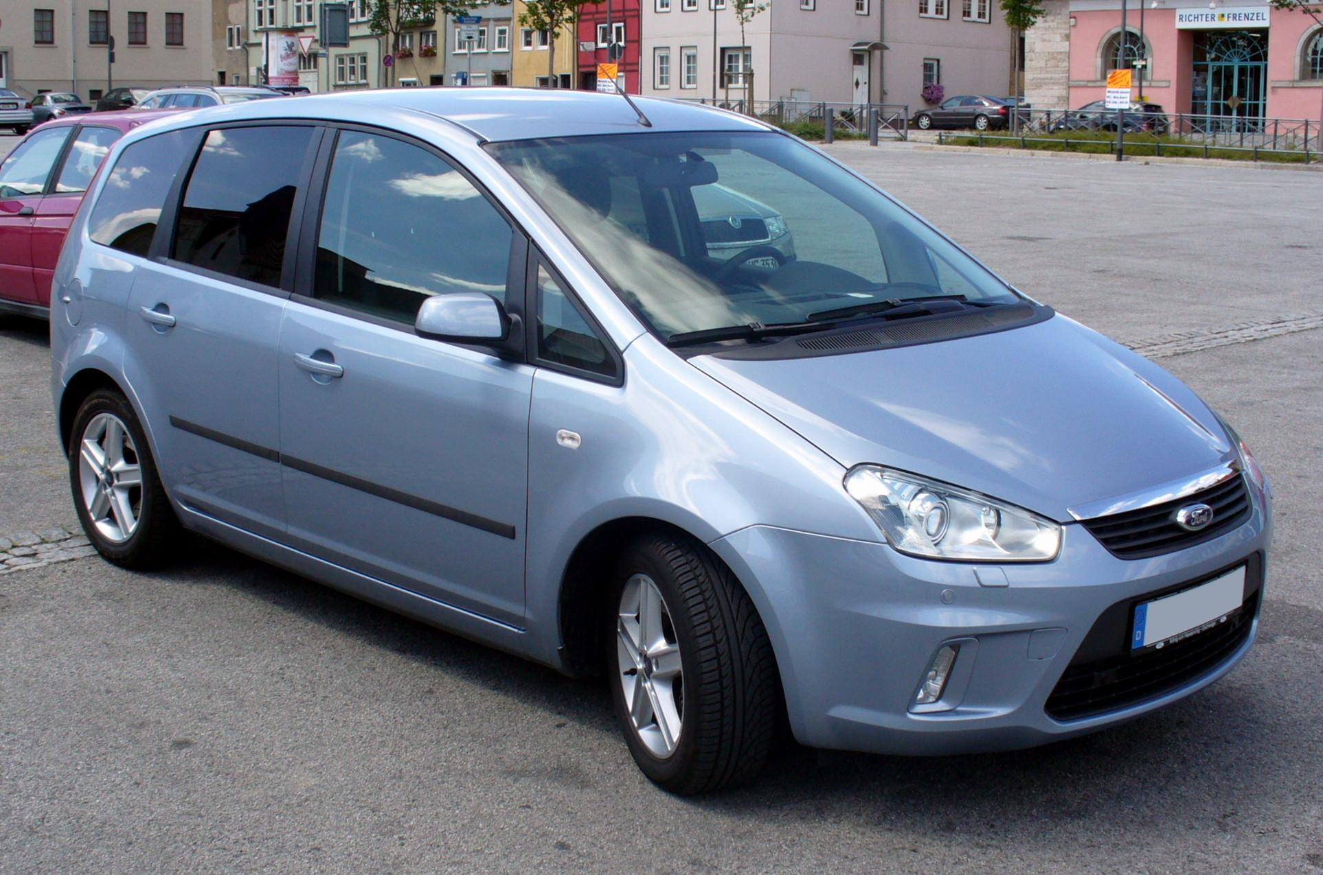 Ford C-MAX